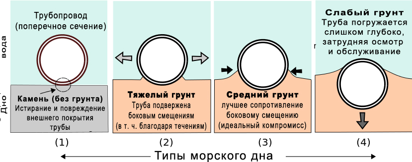 Interaction between a submarine pipeline and the seabed: four hypothetical scenarios.